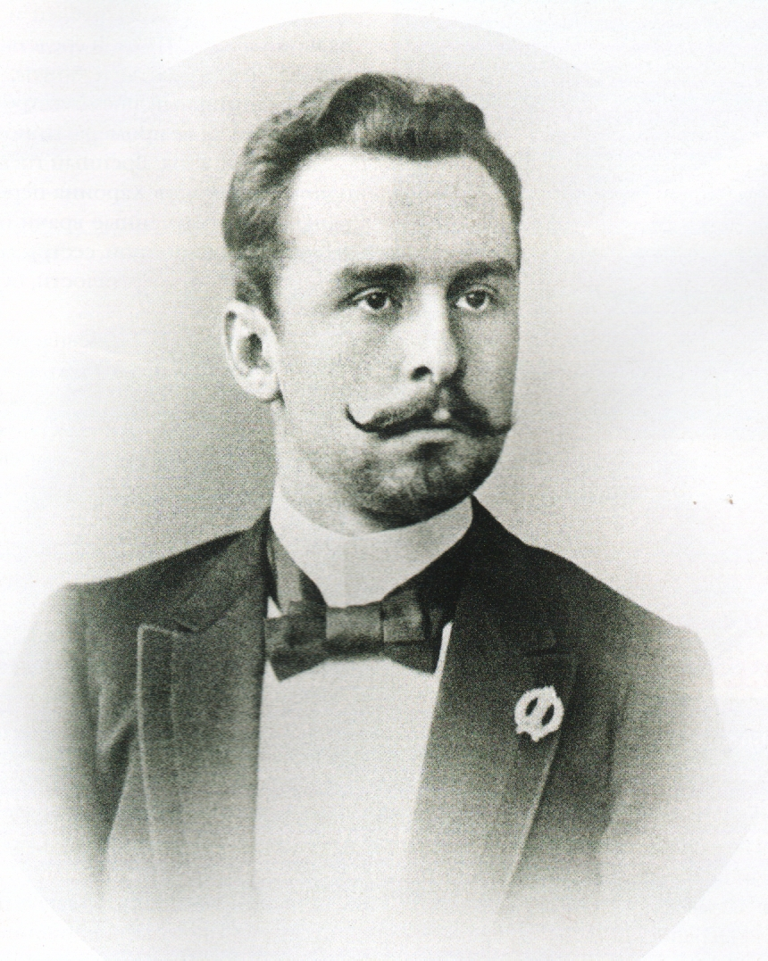 Nikolay Iosifovich Choleva, Russian lawyer and philanthropist